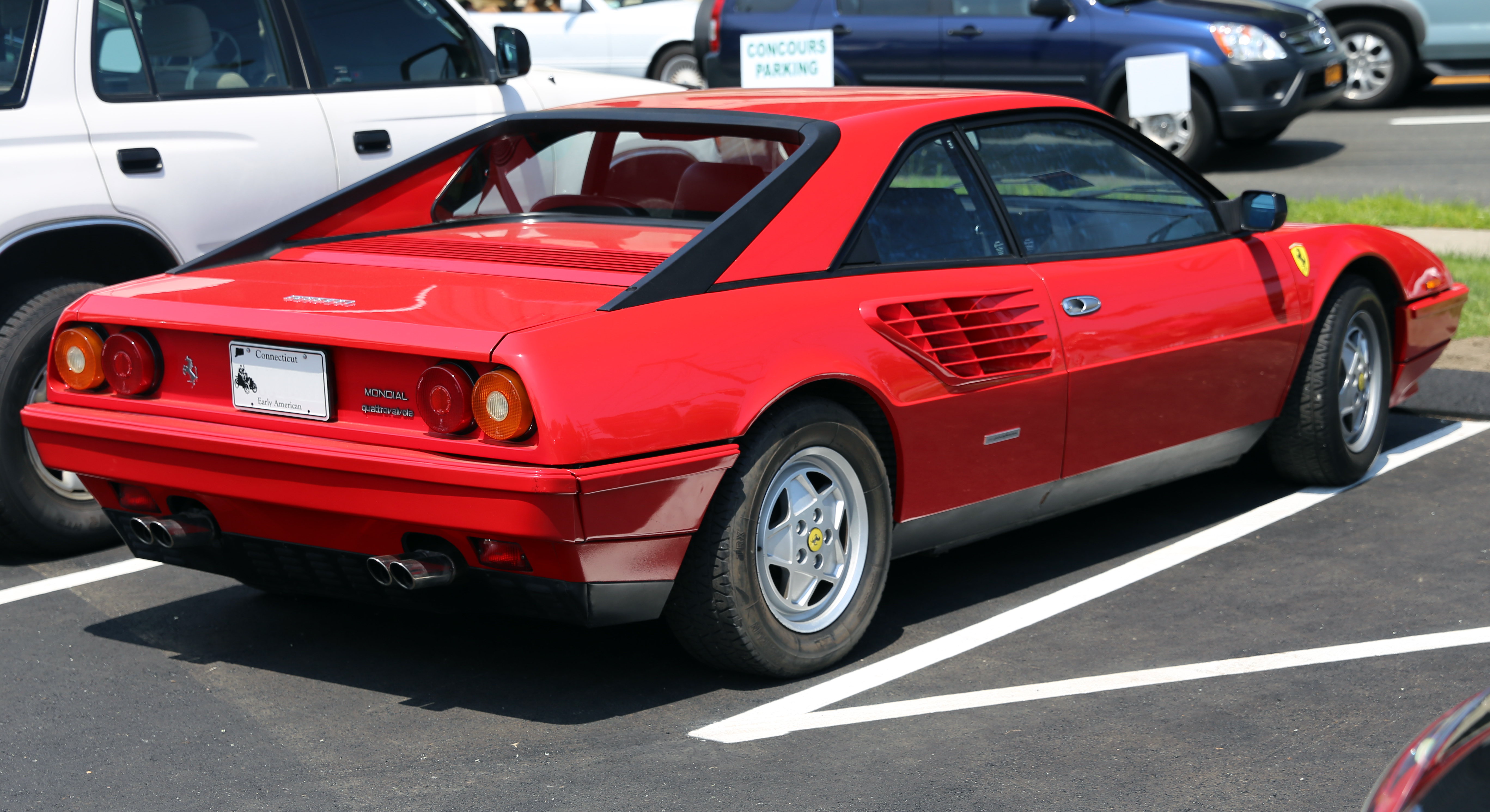 Rear view of a 1983/4 Ferrari Mondial Quattrovalvole. This is a European market Mondial, brought to the US as a grey import. It has also had its bumpers repainted in the body color, in an attempt to look more modern.